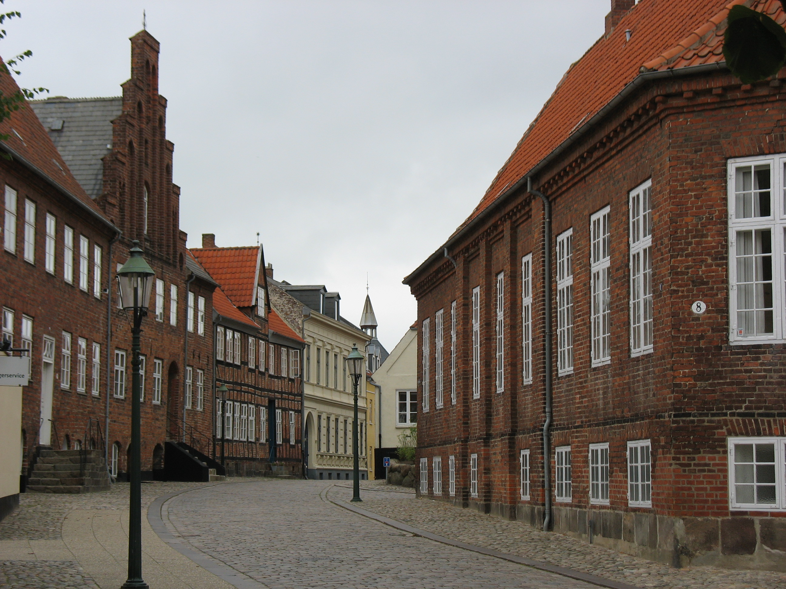 First part of Sct. Mogens Gade (Saint Magnus Street), an old street of the town of Viborg, Denmark.